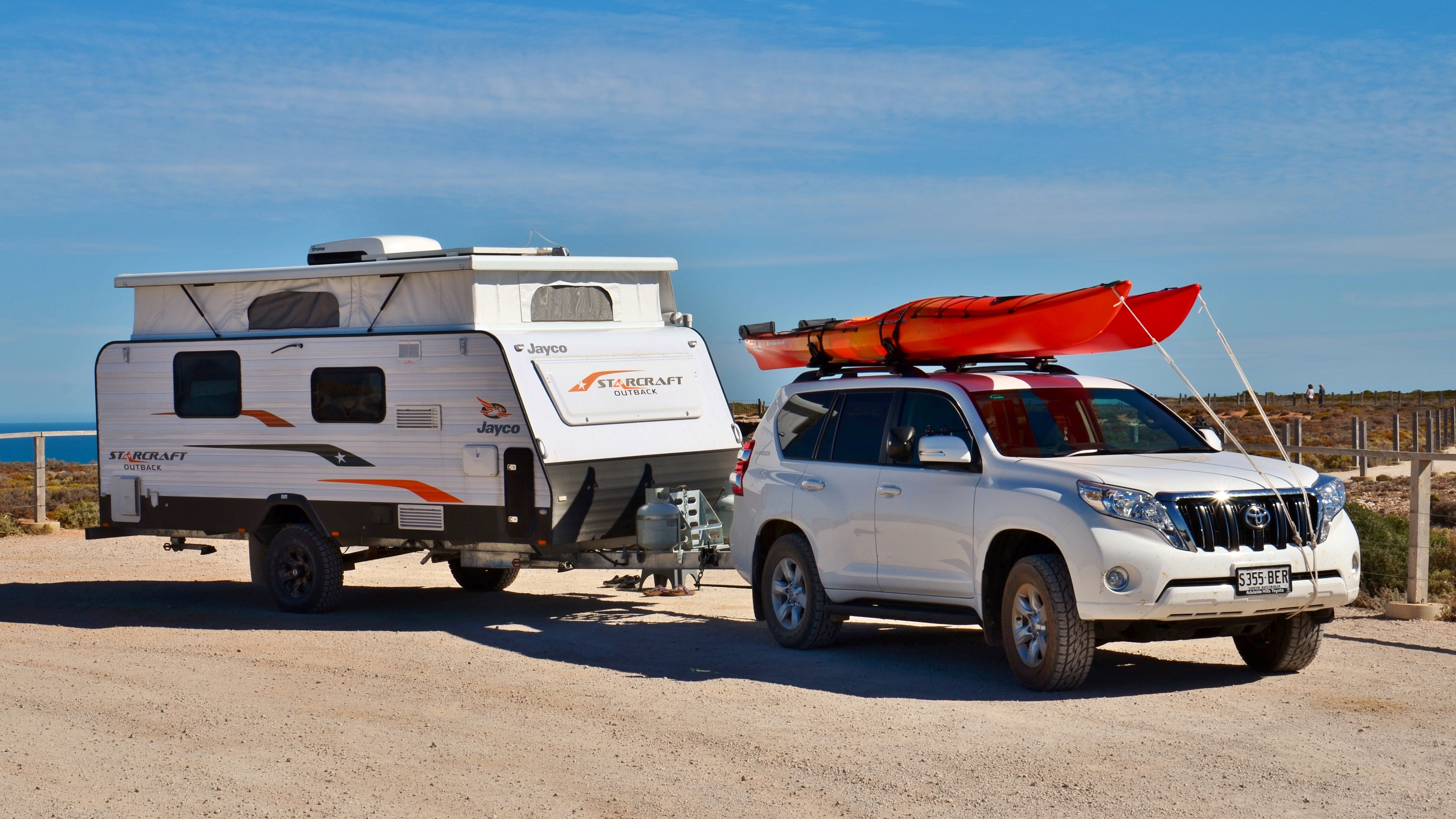 A Toyota Land Cruiser Prado with a Jayco Starcraft fold-down trailer, parked at one of the Bunda cliffs lookouts, on the Eyre Highway, Nullarbor Plain, South Australia